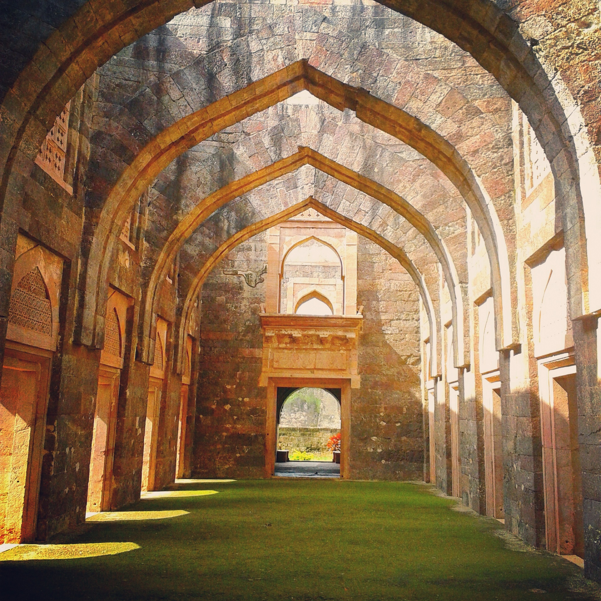 The arches of Hindola Mahal, Mandu (Mandavgad), Madhya Pradesh, India